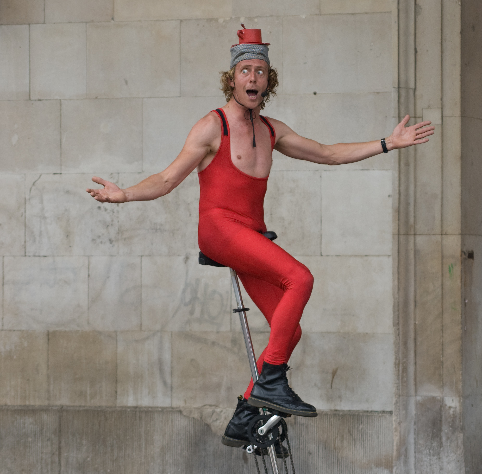 The juggler "The Great Dave" performing in Covent Garden in London on July 8, 2009.